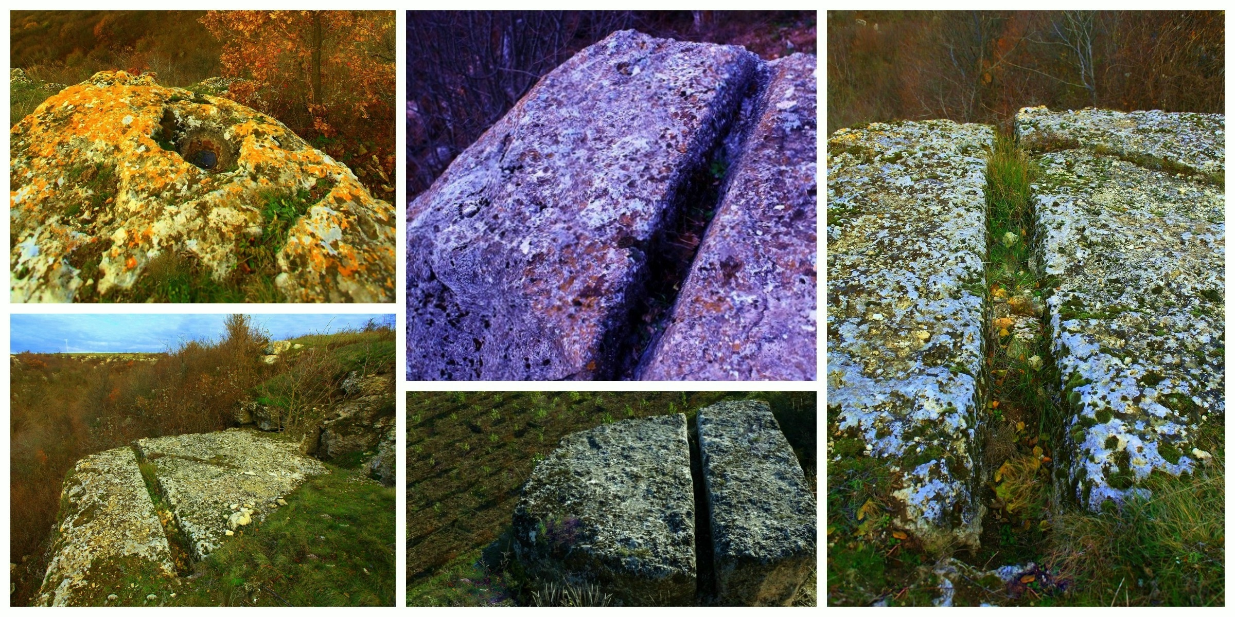 Otlu Borun Sanctuary Hrabrovo Dobrich BG